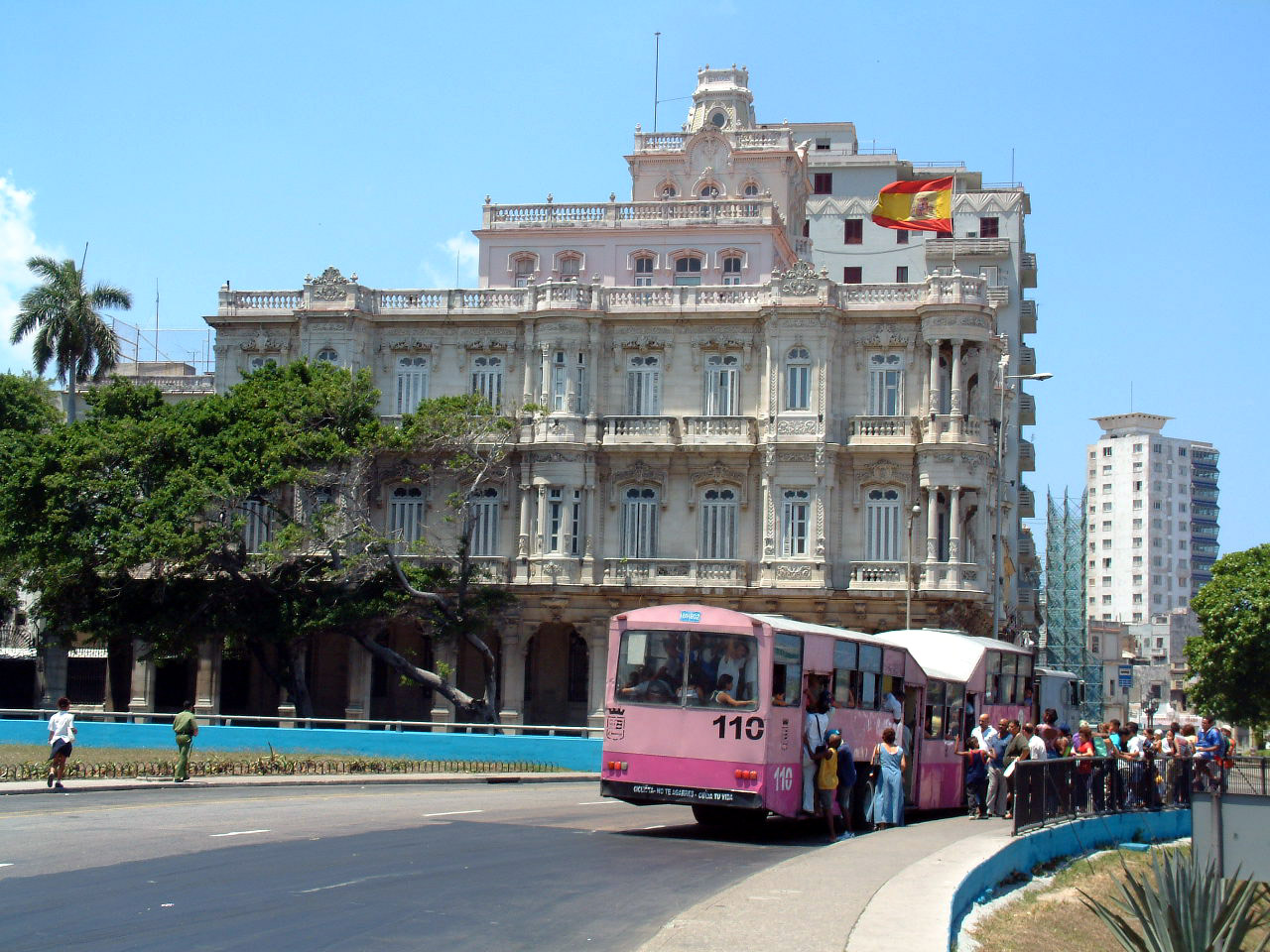 Spanish embassy in Havana.